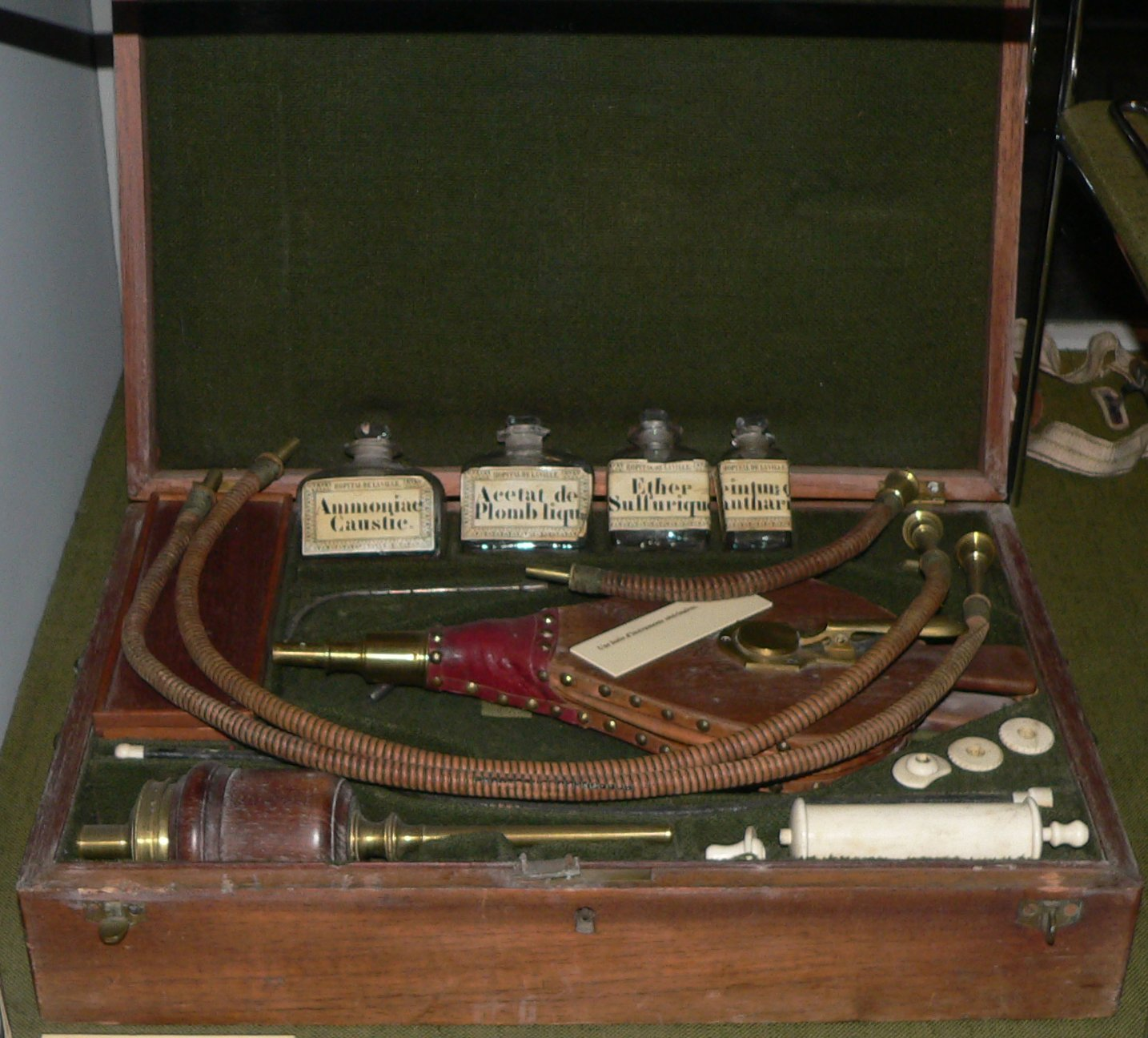 19th Century surgery and medecine instruments, musee d'Art et d'Histoire de Neuchatel